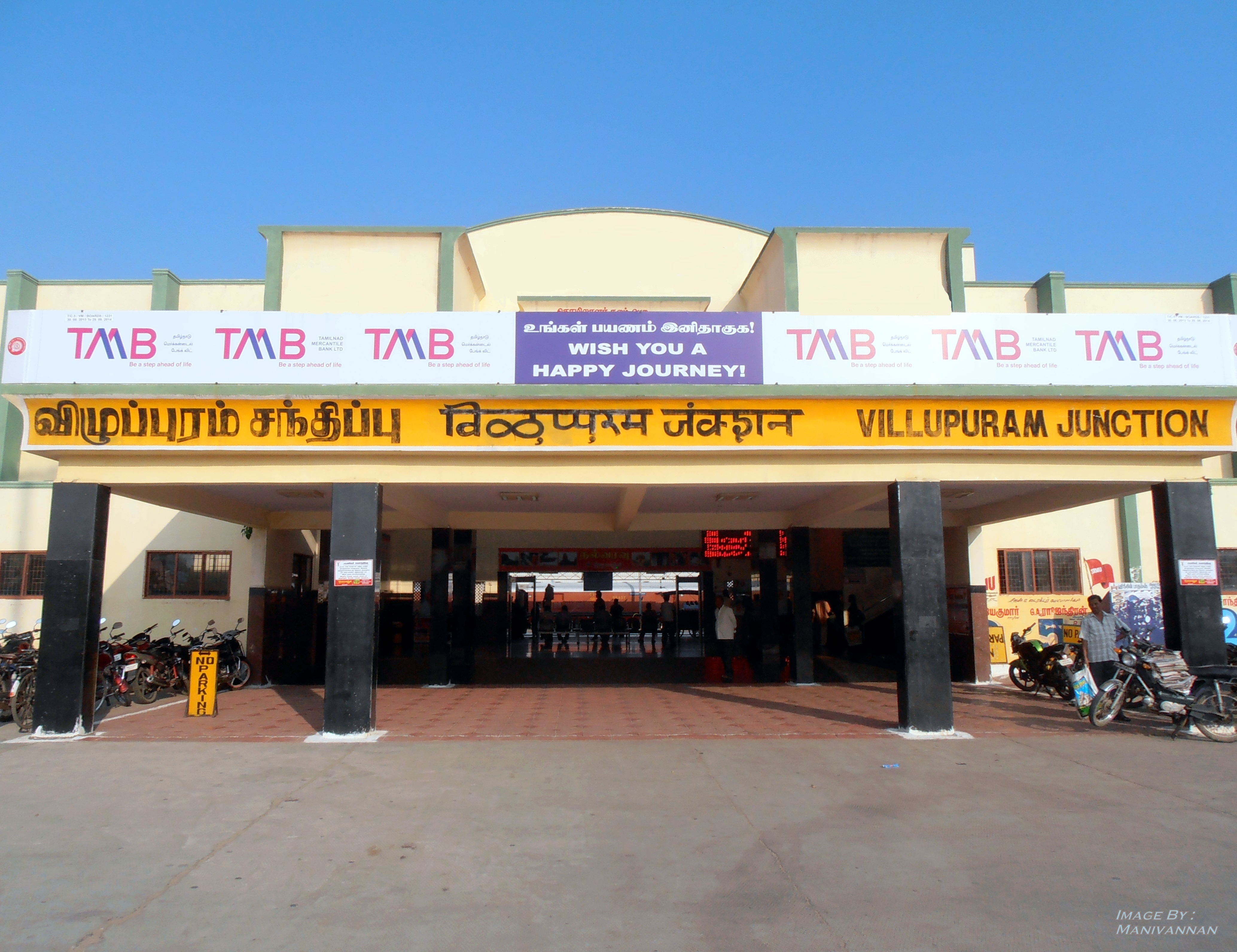 Viluppuram Railway Junction Image Other information Viluppuram Railway Junction Image